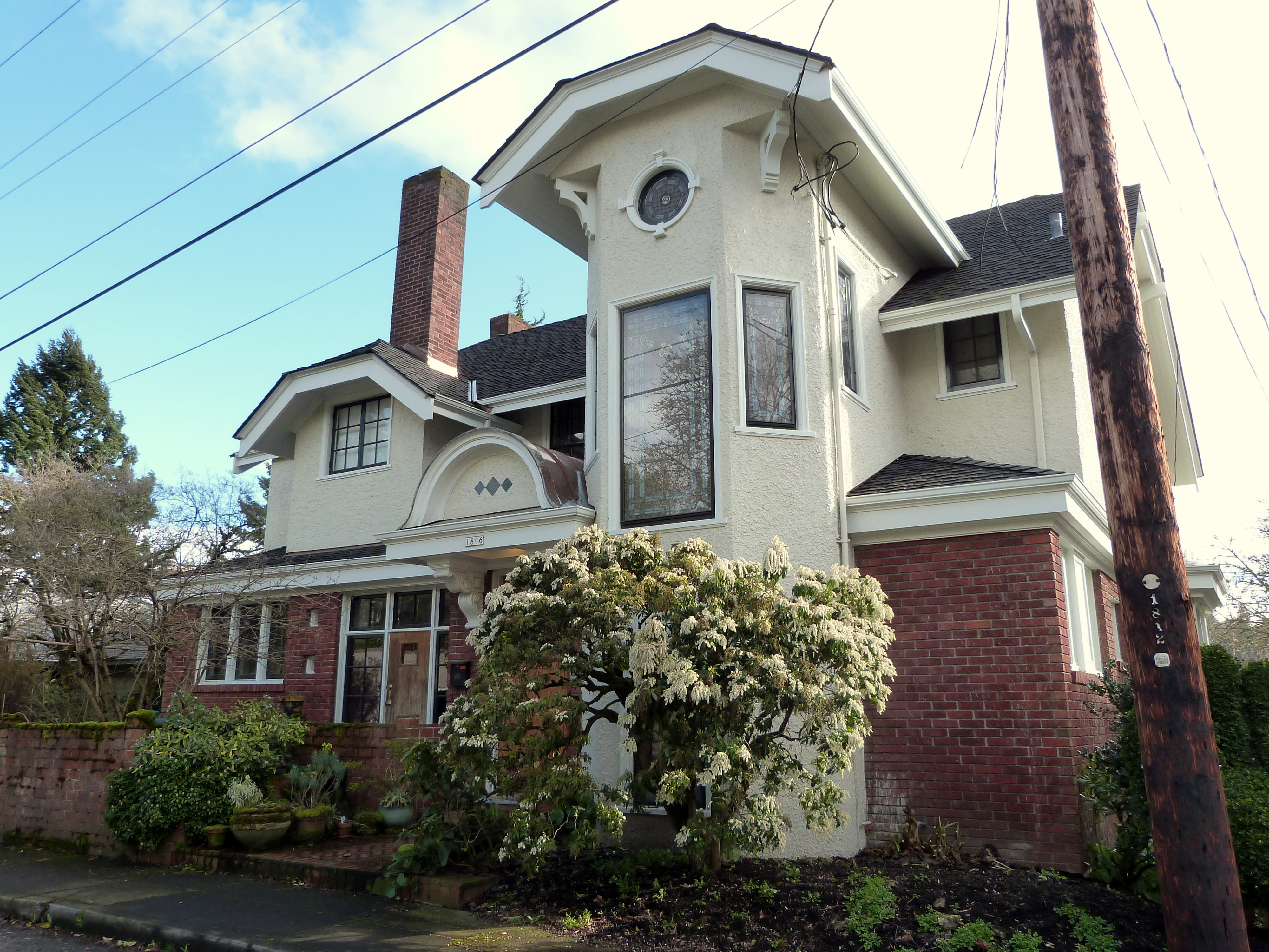 The historic Alfred H. and Mary E. Smith House (built 1908), located at 1806 Southwest High Street in Portland, Oregon, United States, is listed on the US National Register of Historic Places.